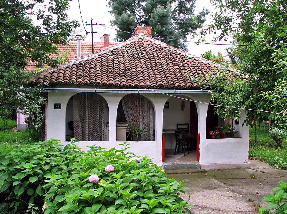 The house of Milosavljevic family, a monument of culture of a folk architecture, view from the street.